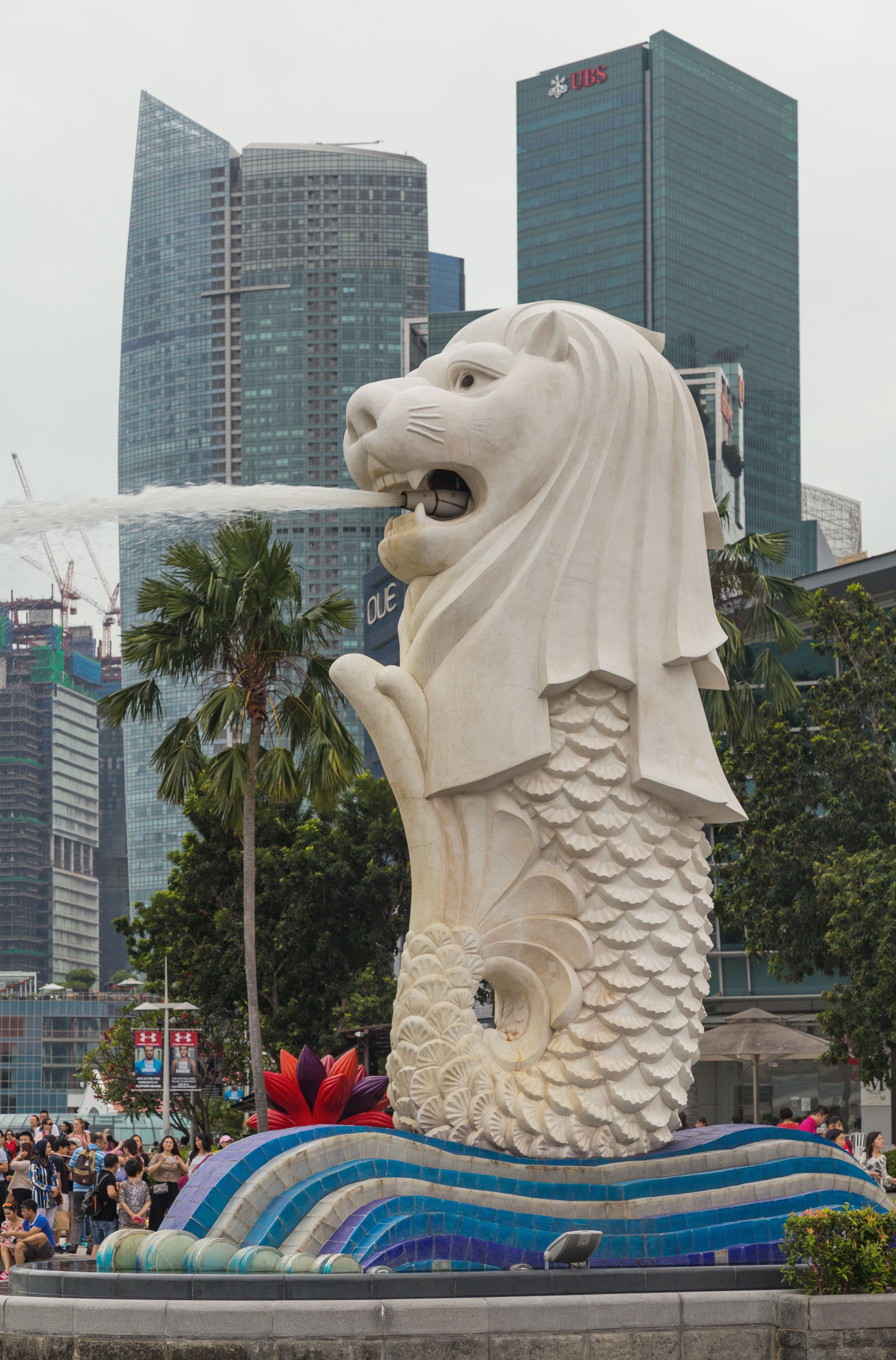 Merlion. Downtown Core, Central Region, Singapore.